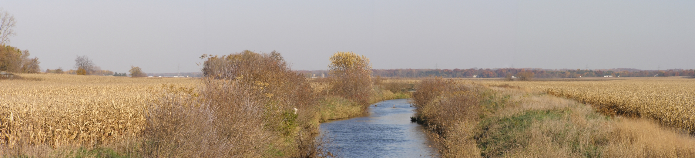 Kankakee River below the headwaters wetlands/cornfields near Crumstown, Indiana.